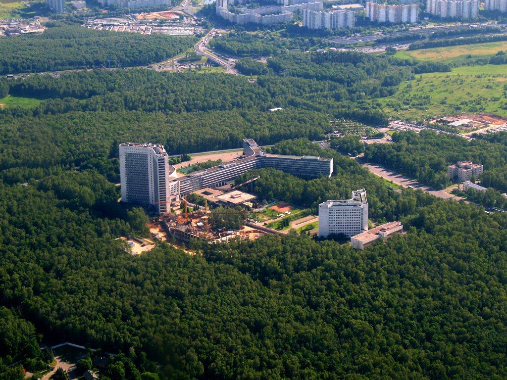 HQ of the Foreign Intelligence Service of Russia in Yasenevo, Moscow. Taken from AN-24 on its way from Tambov to Moscow.